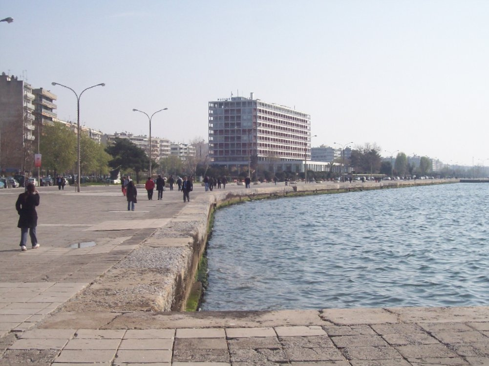 Thessaloniki, Greece